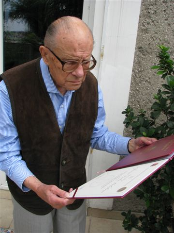 Stefan Bałuk (b. 1914), Polish military officer, soldier of World War II and photographer